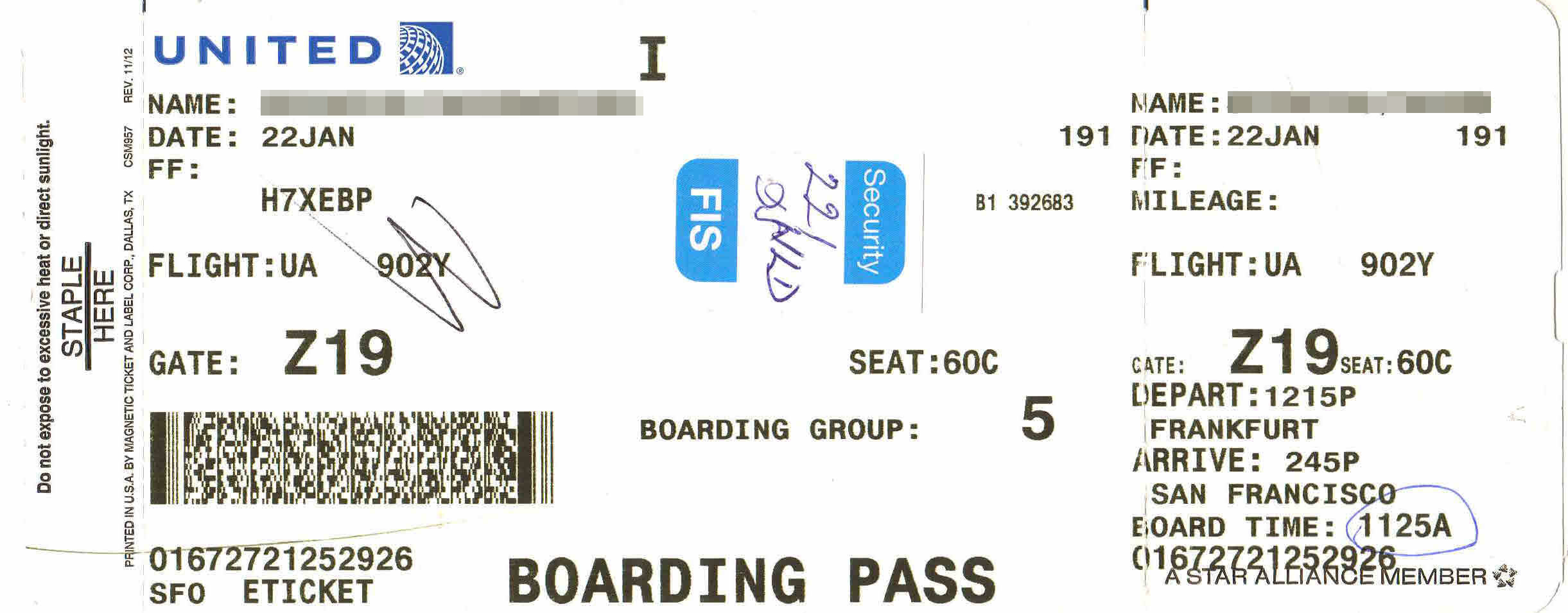 United Airlines - boarding pass UA902 Frankfurt-San Francisco